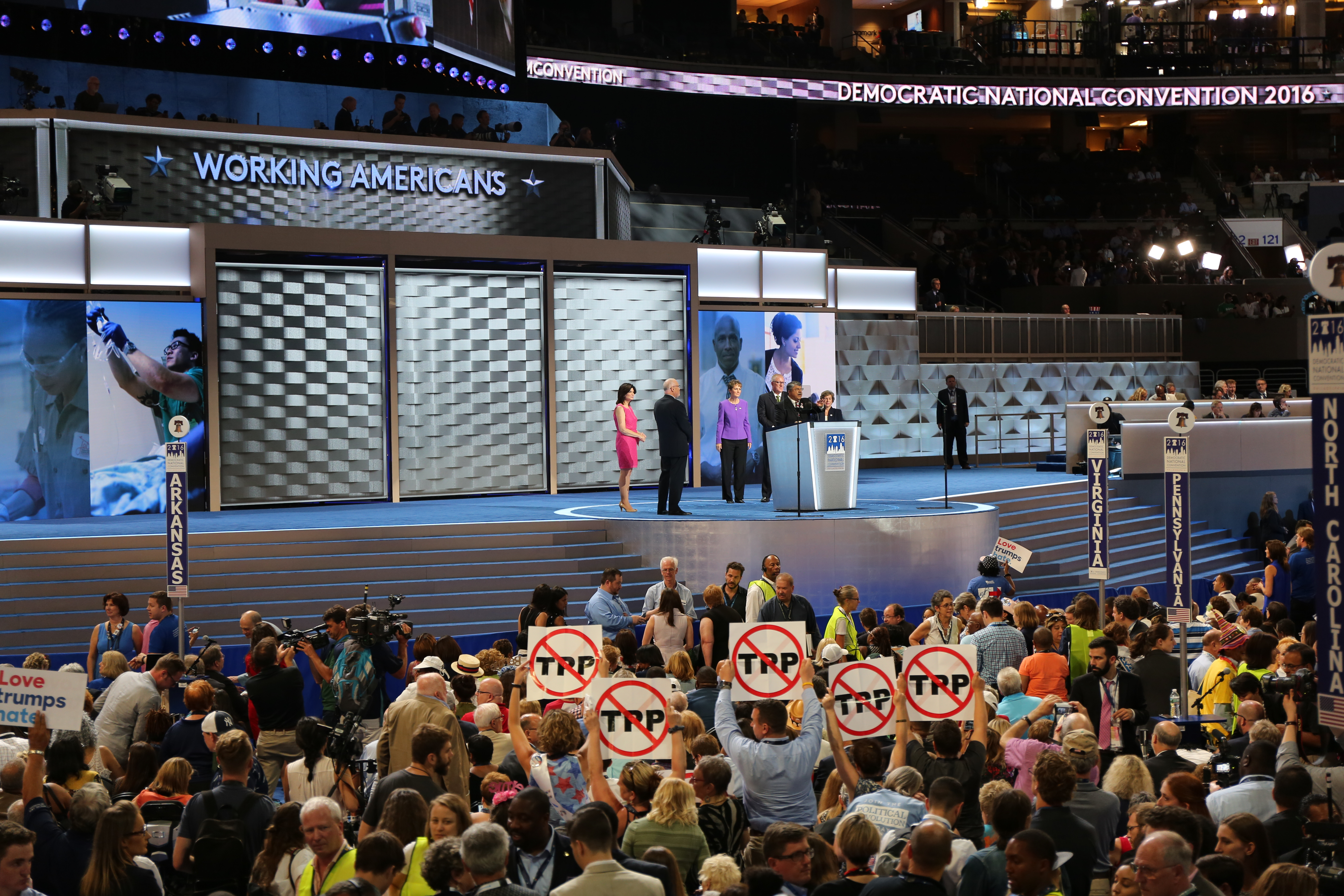 2016 DNC